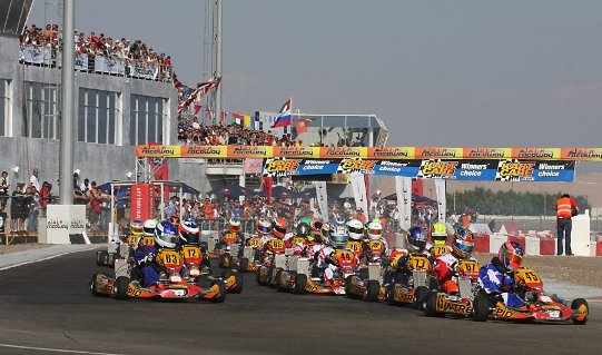 Rotax Grand Finals 2007 at Al Ain Raceway Kart Circuit, United Arab Emirates.